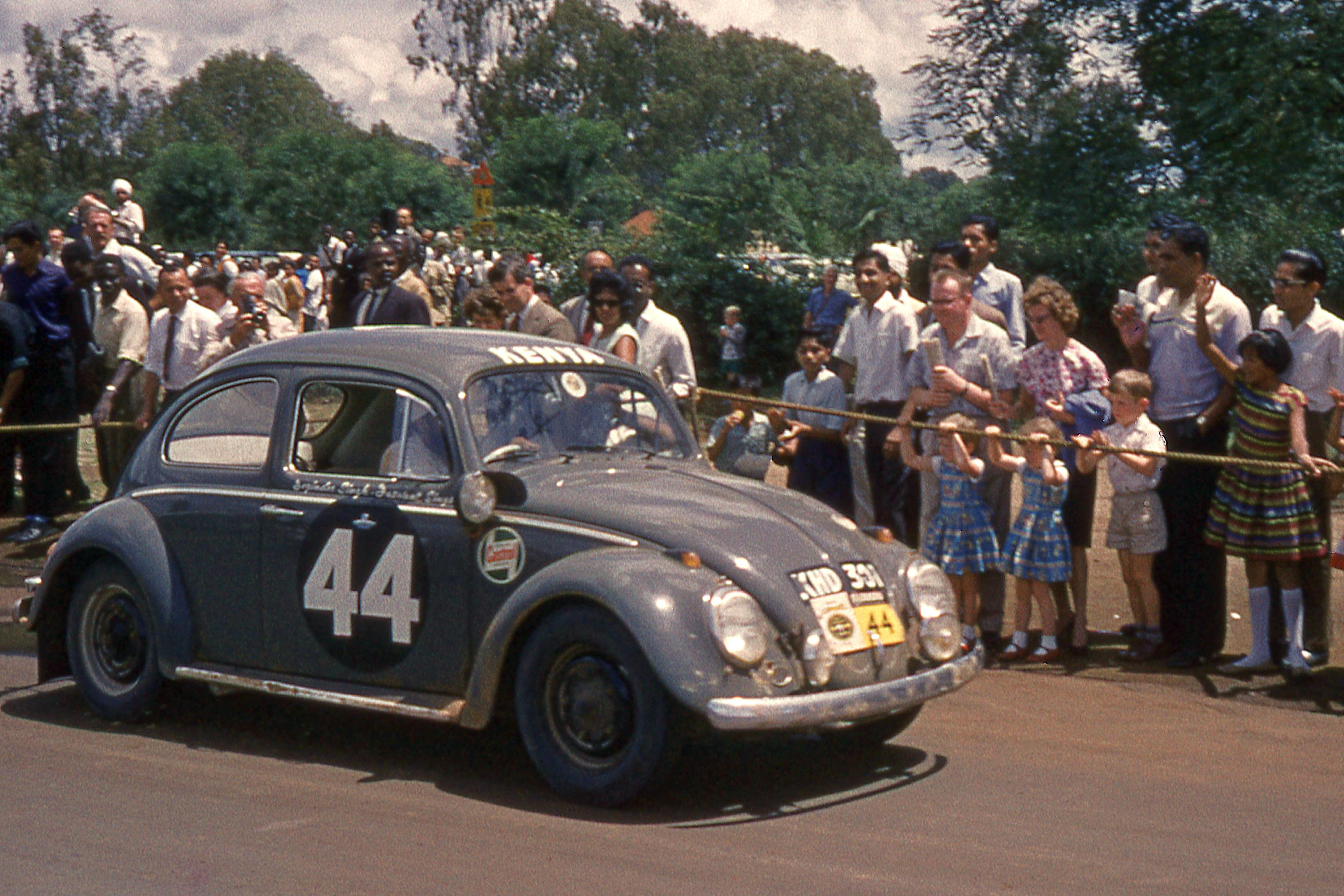 Kenyan rally driver Joginder Singh (with his brother Jaswant as co-driver) in driving through the streets of Nairobi, Kenya. The Singhs took part in the 10th East African Safari Rally with their VW Type 1.